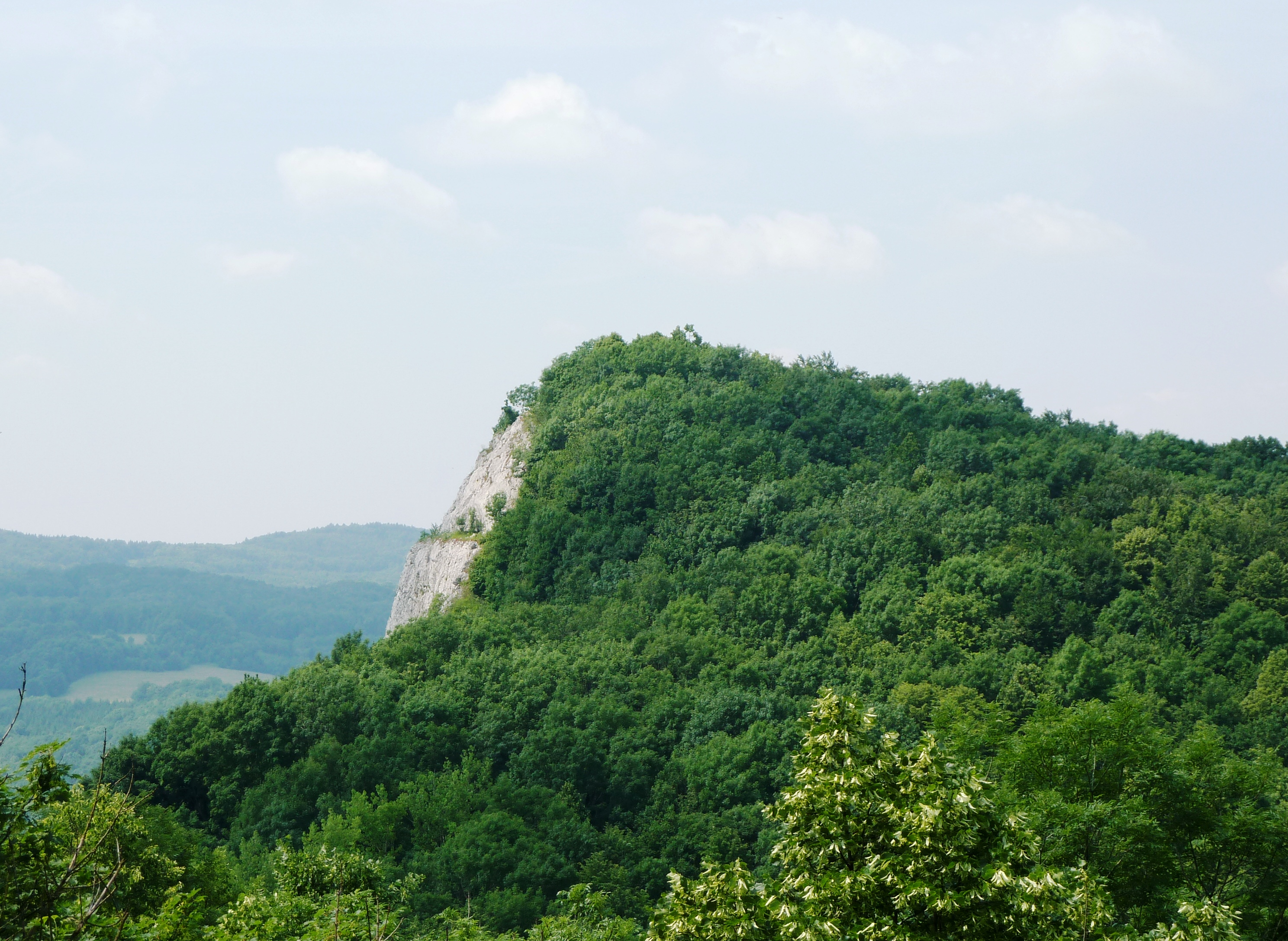 The hill Kotouč in town Štramberk (north Moravia, Czech Republic). The hill was partially destroyed by minig of limestone.